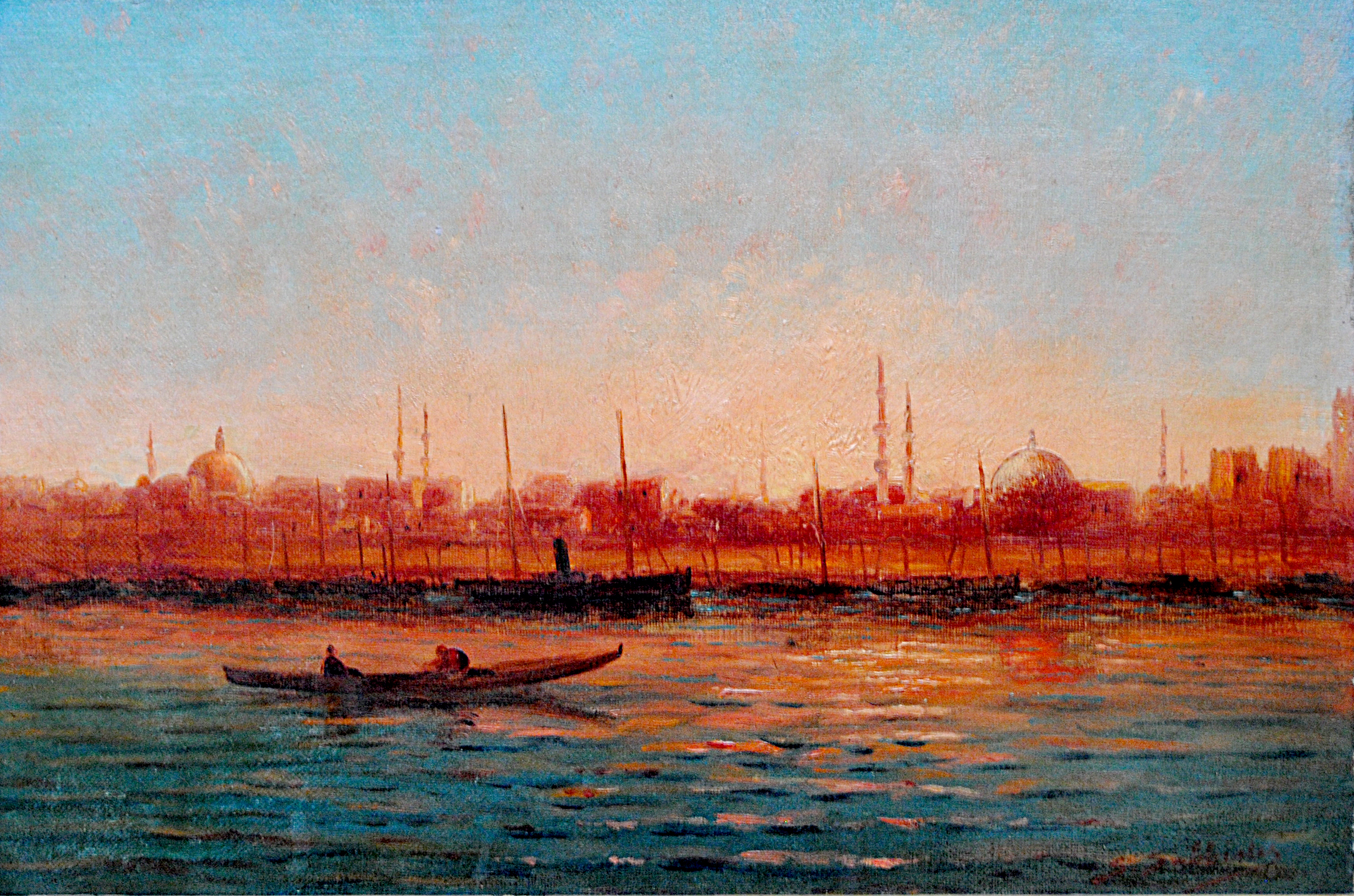 Sabbides Simeon, oil on canvas, 26 x 40 cm, Private Collection